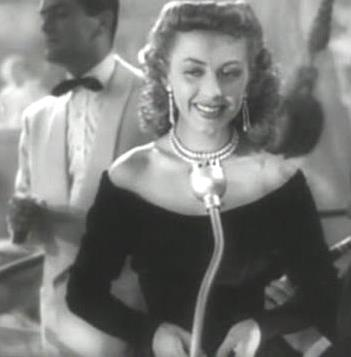 Kary Barnet